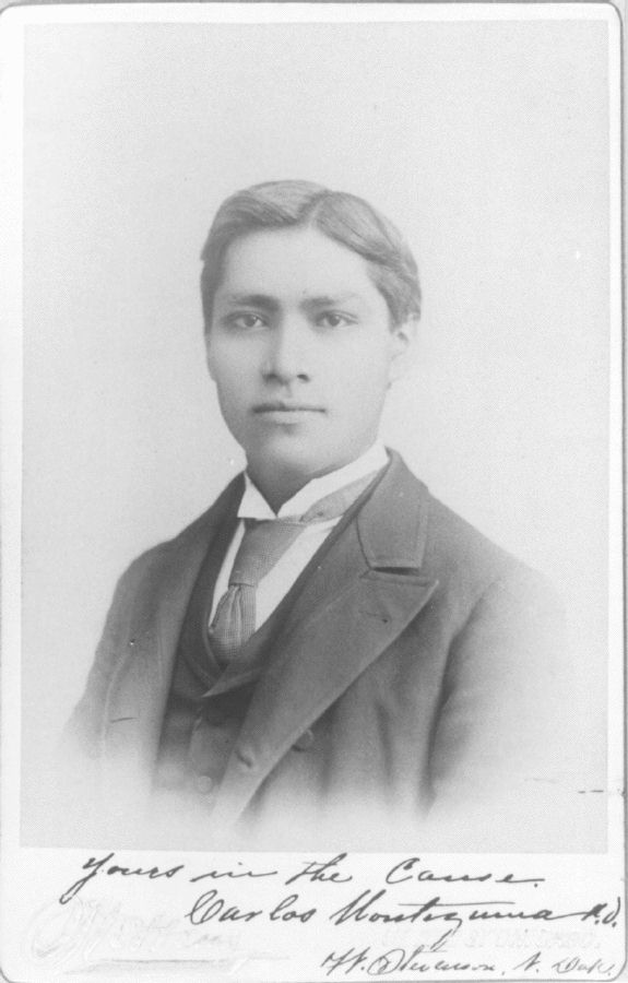 This photo is from 1890, and comes from the National Archives and Records Administration, a US Federal Agency, therefore is public domain. I got it from